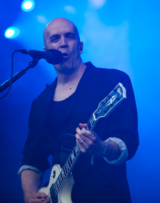 Devin Townsend performing in 2012.